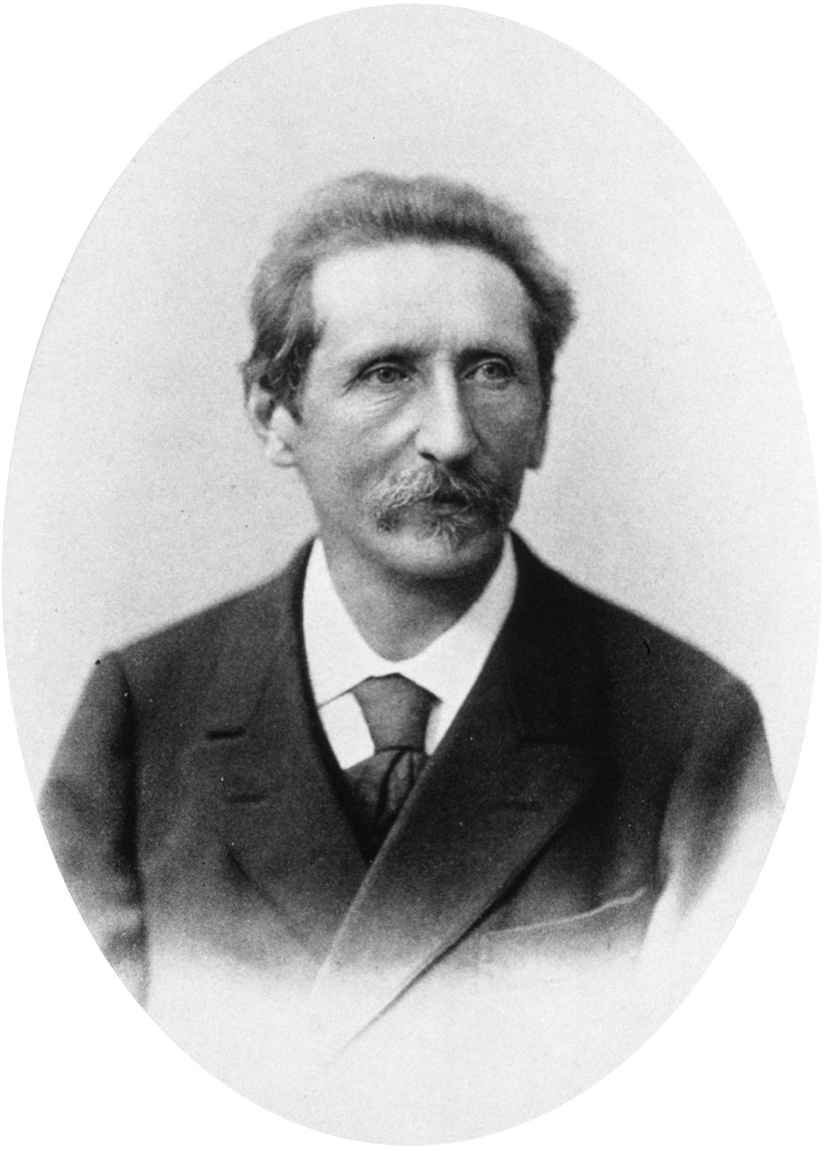 Eduard Adolf Strasburger (1844 – 1912)